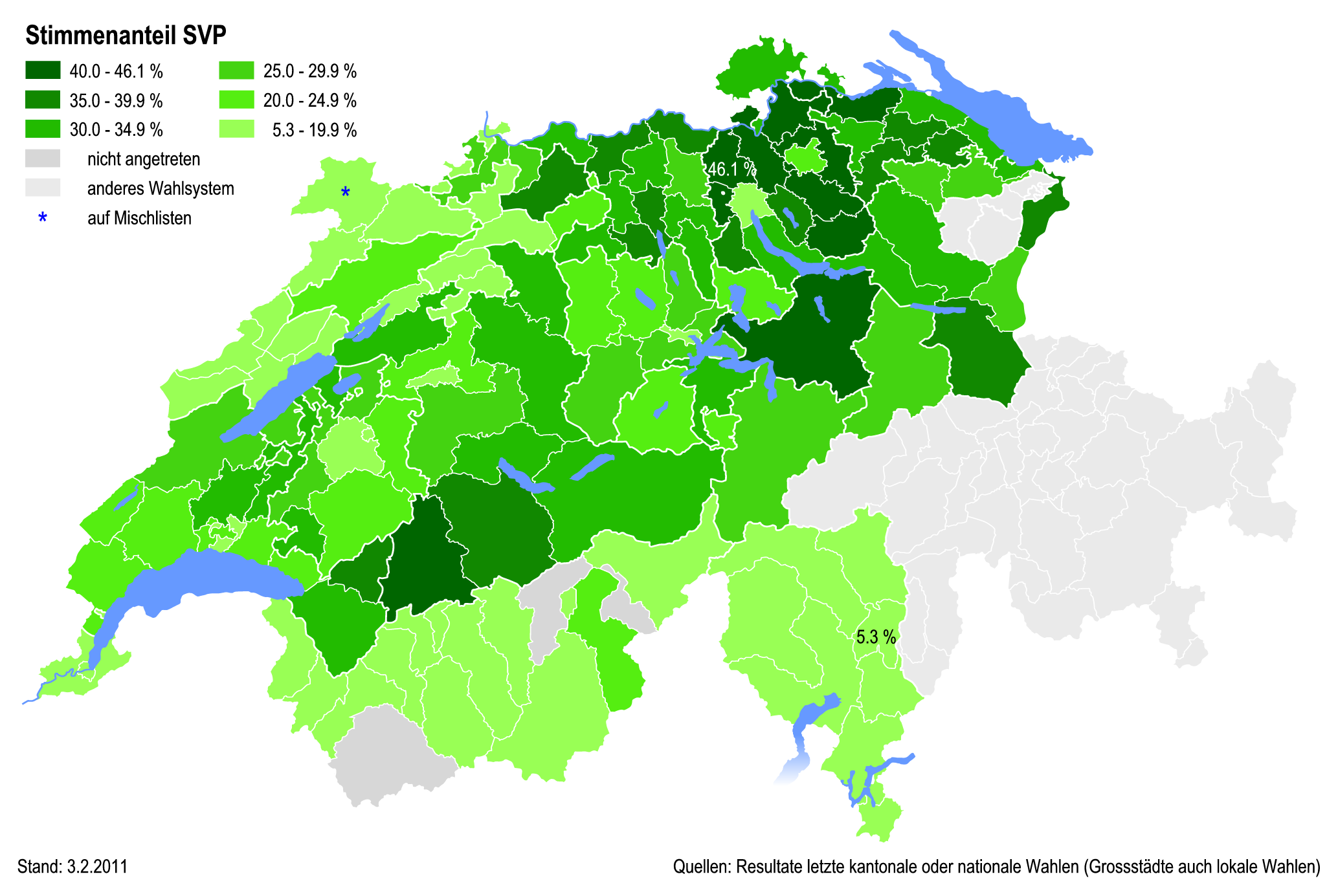 Geographical overview on the votes share of the Swiss People's Party in the districts.